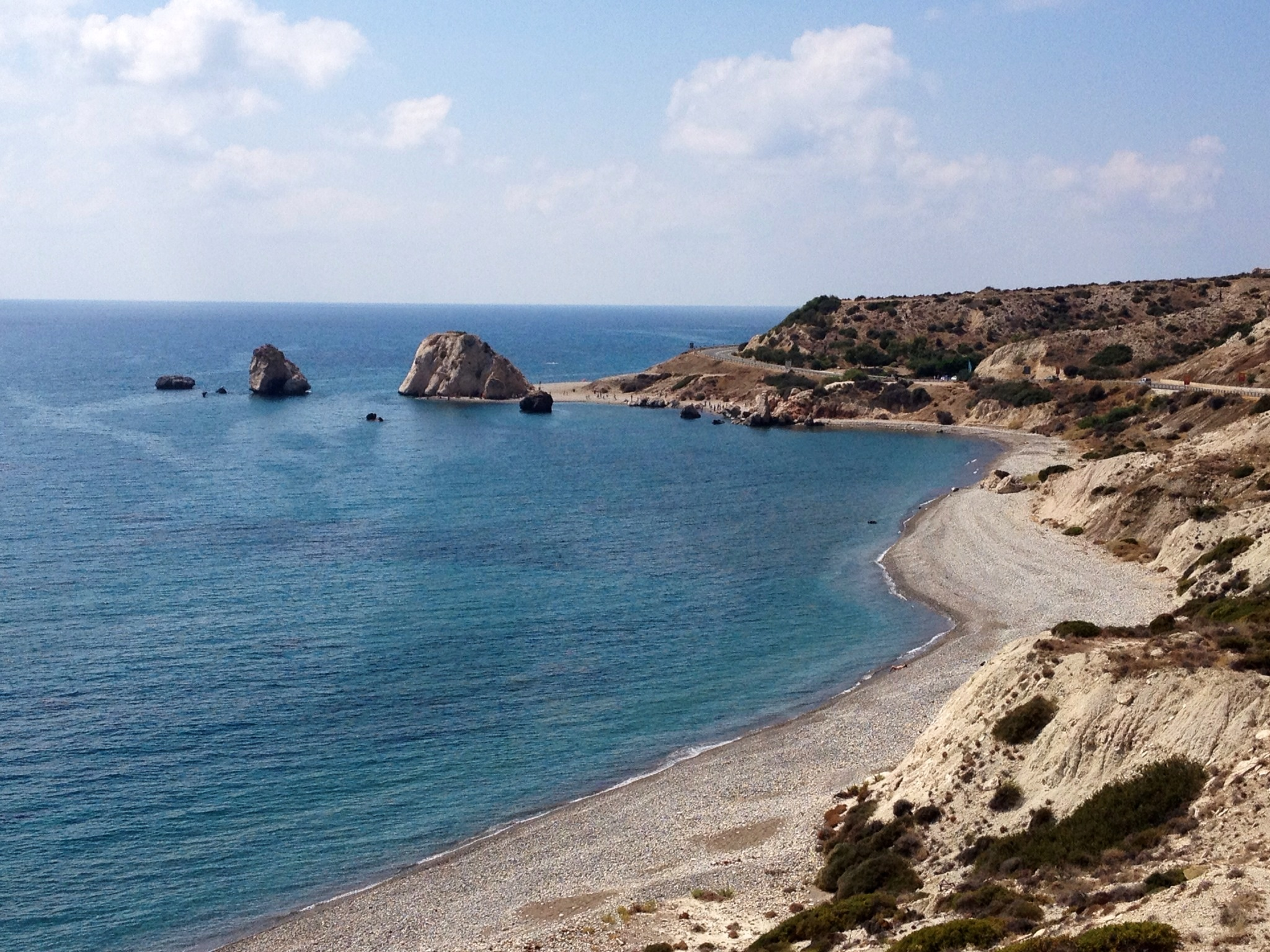 Petra Tou Romiou (Rock of the Greek), or Aphrodite's Rock